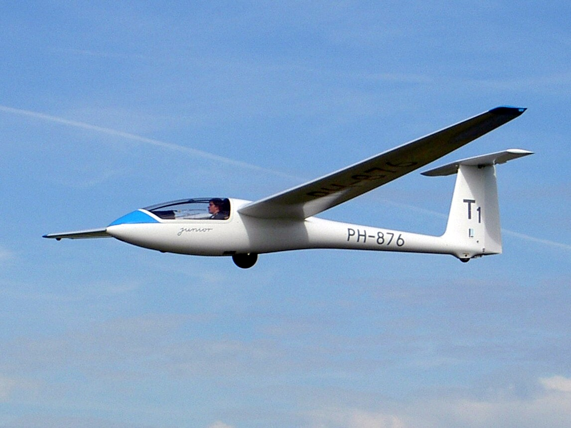 Photographed at Teuge International Airport.